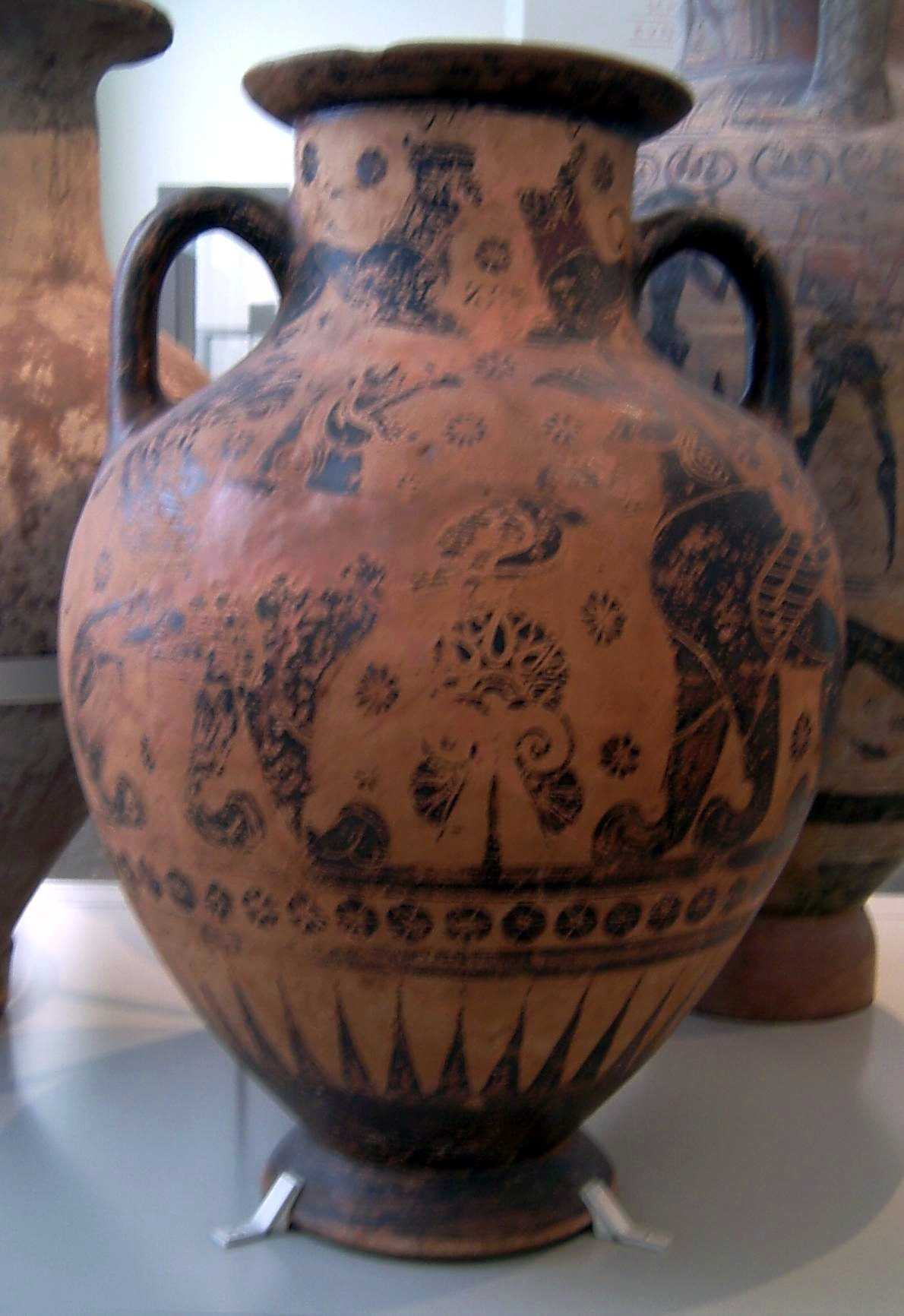 attic Amphora of the Nessos-Painter, ca. 610-600 B.C., Pair of Griffenbirds at the Side of a Palmettes-tree with Owl, on the Neck a pair of Panthers